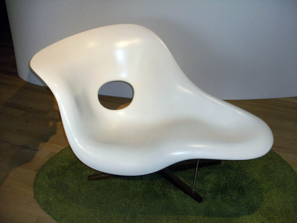 La Chaise by Charles and Ray Eames.